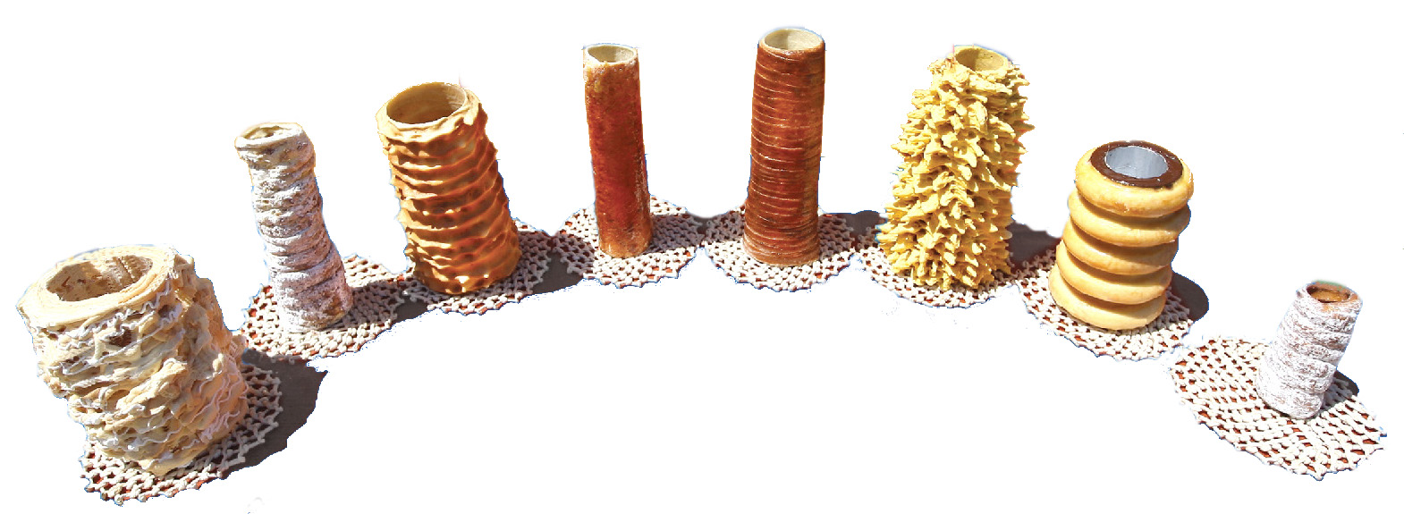 Kürtősh Kalách family-Spettekaka Trdelník Prügelkrapfen Baumstriezel Kürtőskalács Raguolis Baumkuchen Kürtősfánk